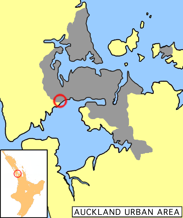 Location map of Titirangi, New Zealand